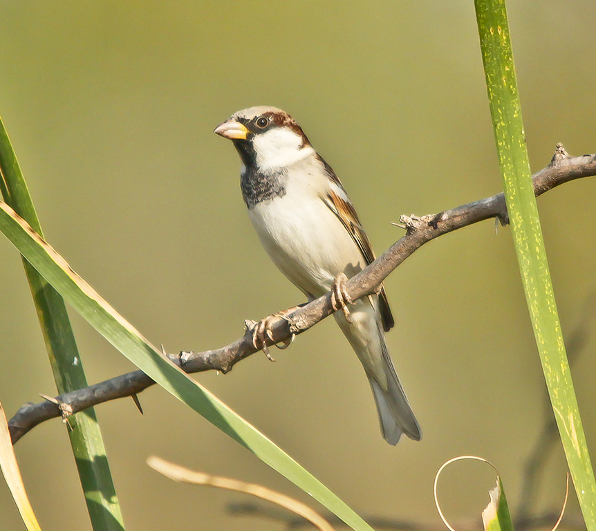 Kashmir House sparrow male